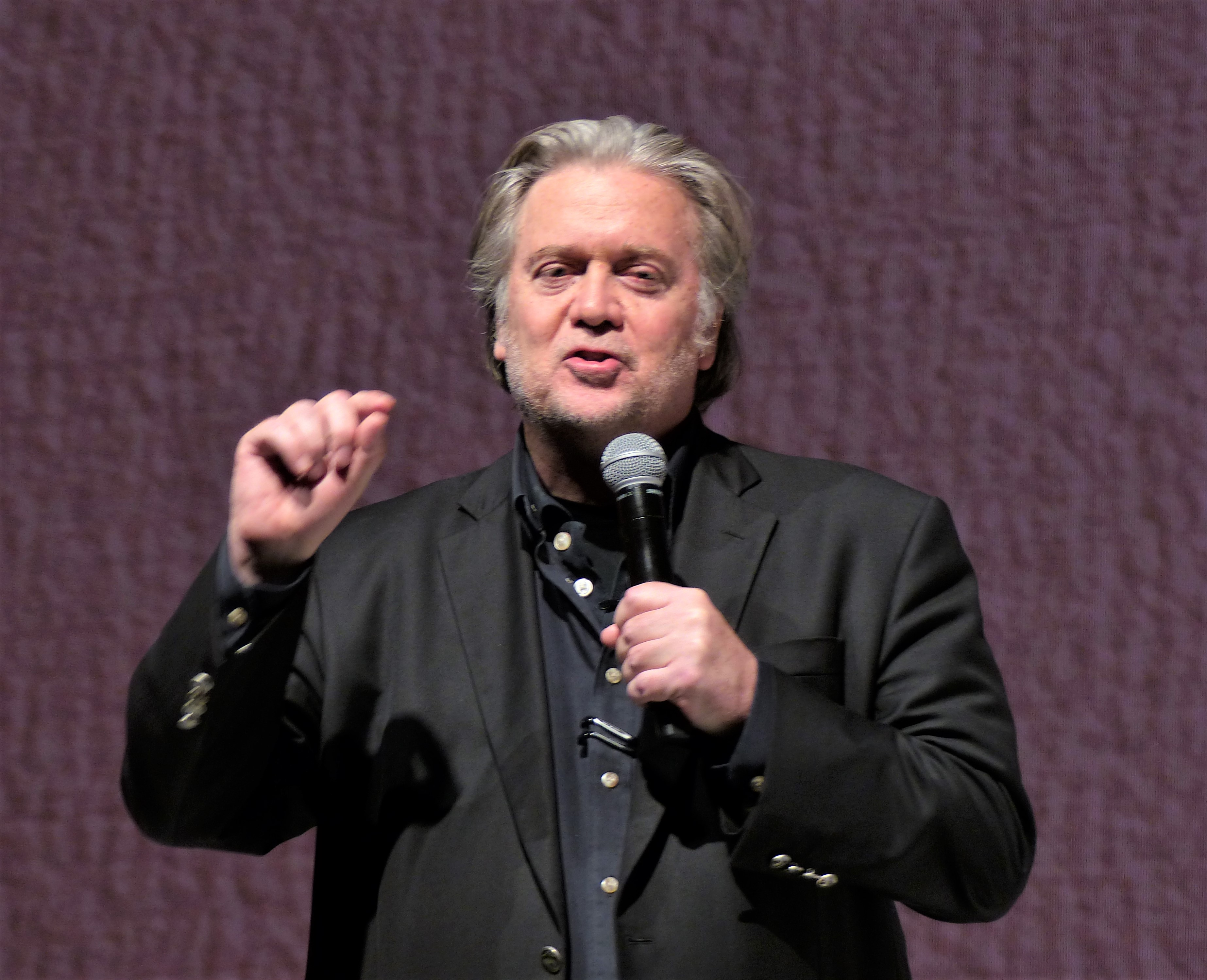 Steve Bannon. Eötvös József Lecture. Wednesday, the 23rd of May, 2018. Polgári Magyarországért Alapítvány, XXI. Század Intézet, V4 Connects. Várkert Bazár, Budapest, Hungary, Central Europe.